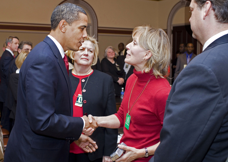 Barack Obama shakes hands with Beverly Eckert during a meeting in Washington, D.C., at the Eisenhower Executive Office Building with a group who lost family members in the 9/11 and the U.S.S. Cole tragedies. Beverly Eckert died the following week in the Continental Airlines Flight 3407 crash near Buffalo.